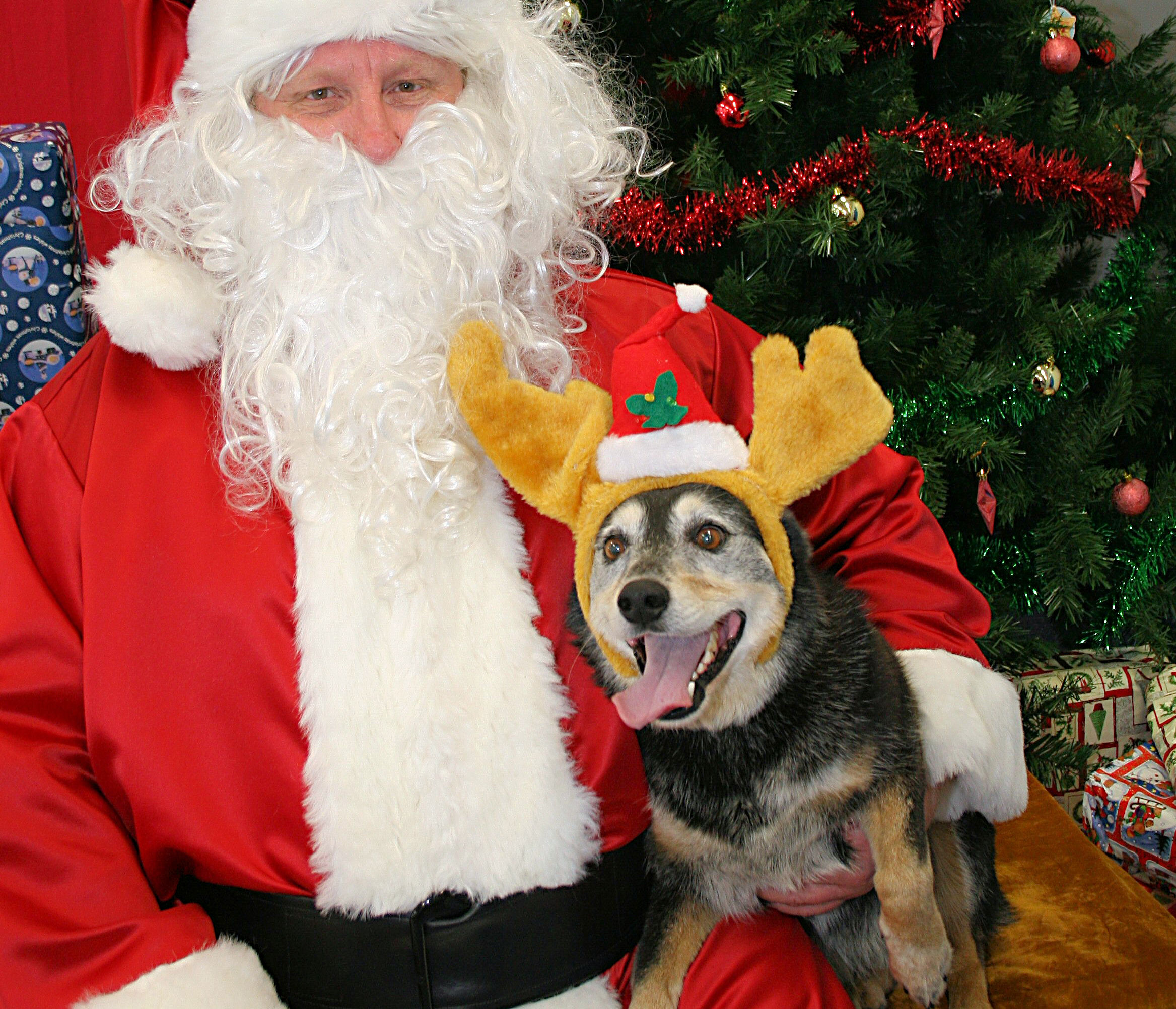 Cattle dog sitting on Santa's lap